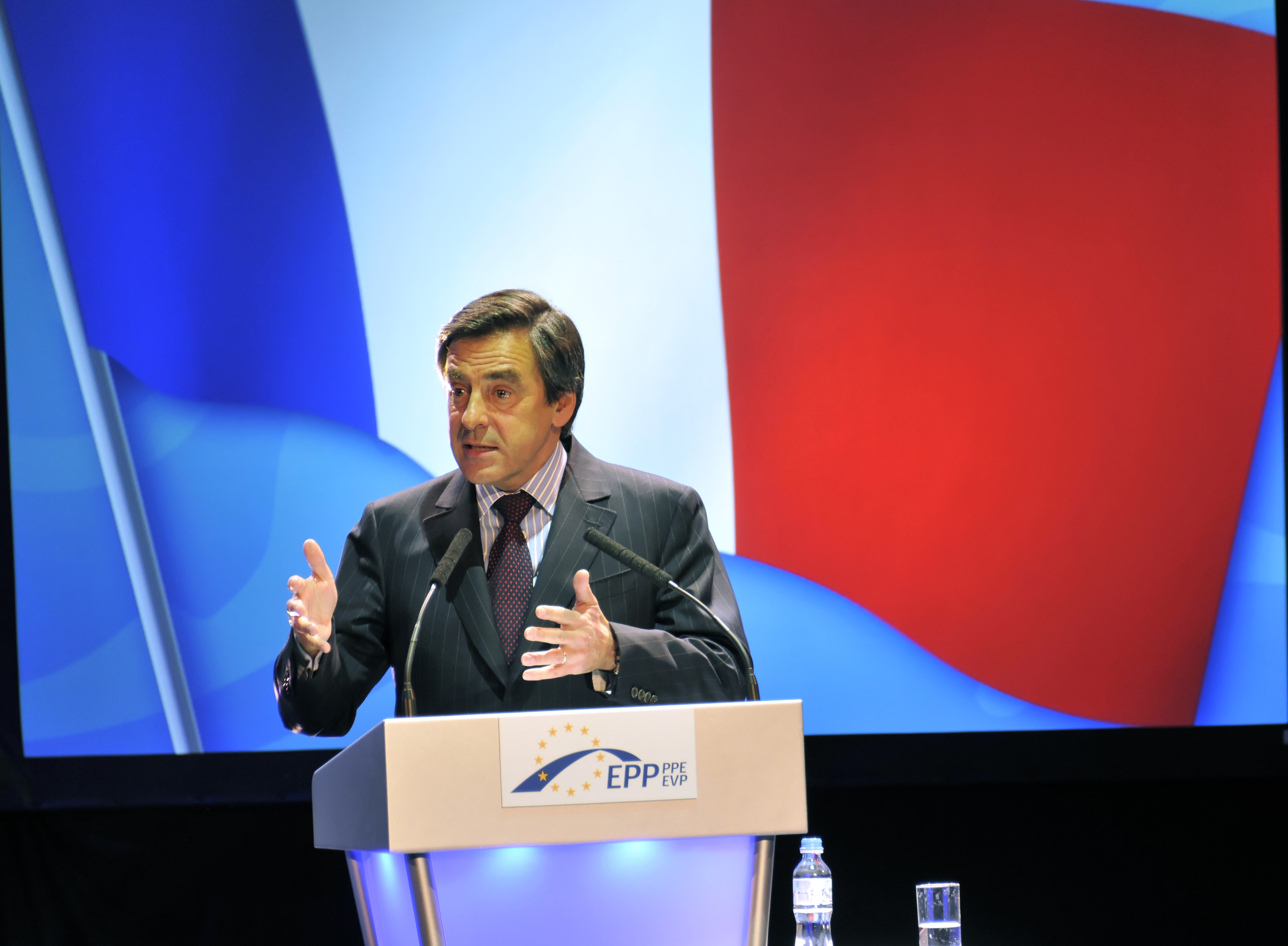 EPP Congress Warsaw